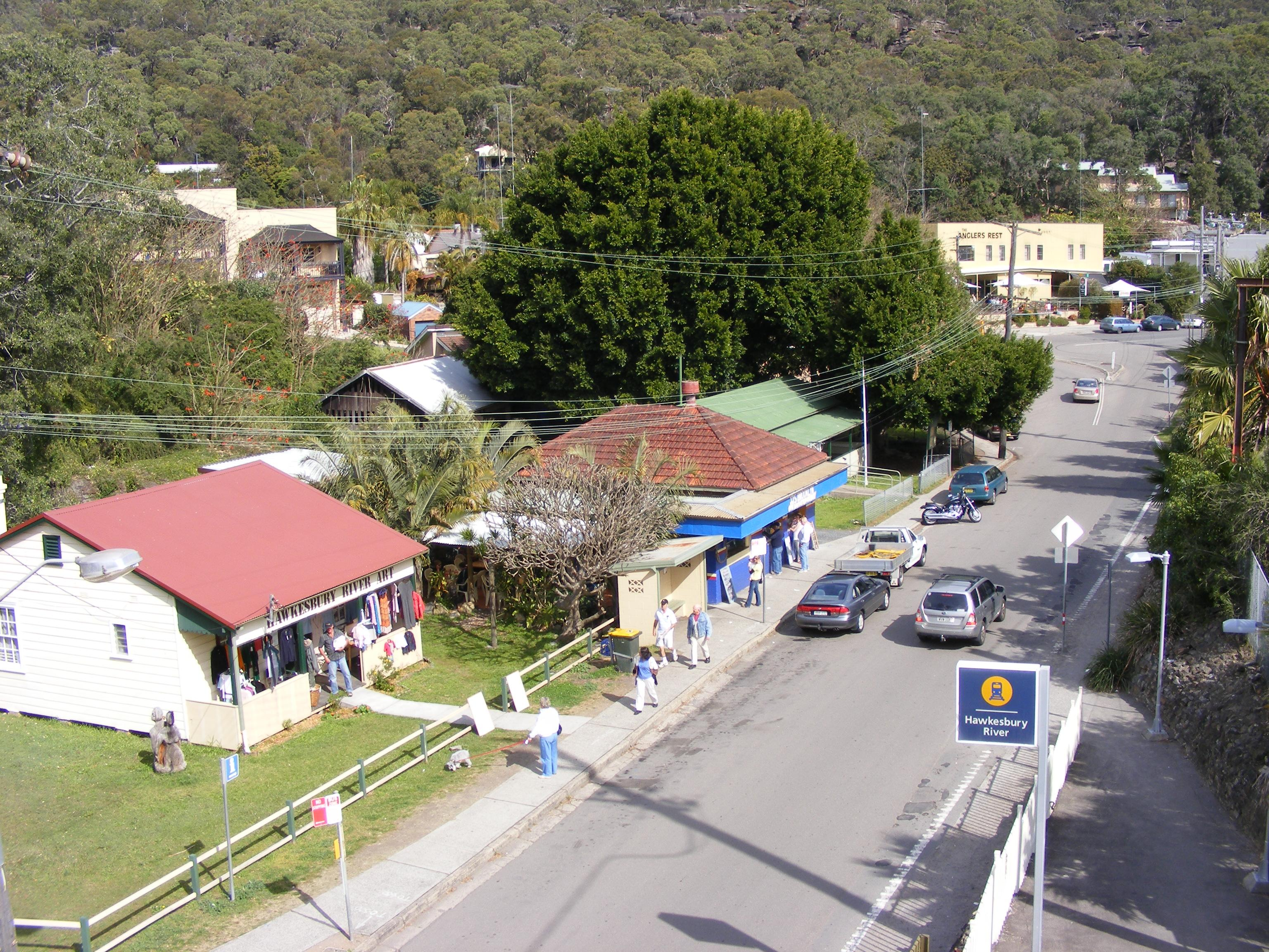 View from Hawkesbury River station bridge